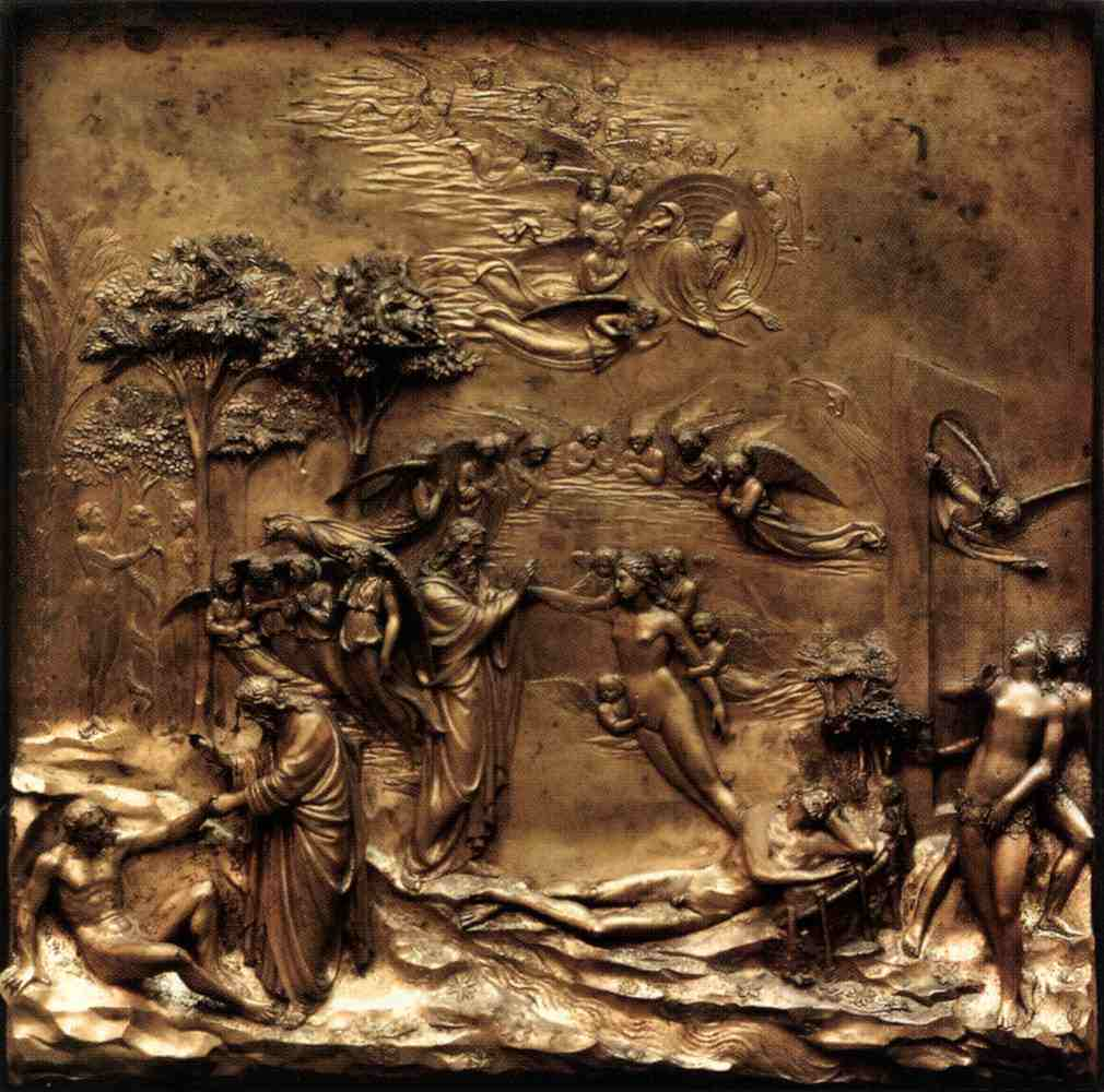 Creation of Adam and Eve (Gate of Paradise, Battistero di San Giovanni, Florence)